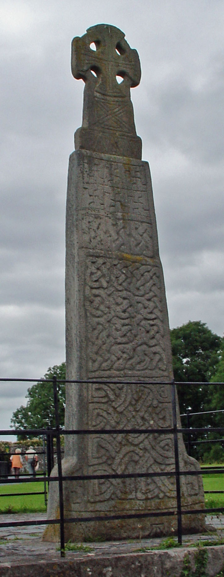 The High Cross at Carew, Pembrokeshire, Wales, east side. A large Celtic cross dating from the 11th century, allegedly commemorating Maredudd ab Edwin, co-king of Dyfed, died 1035.